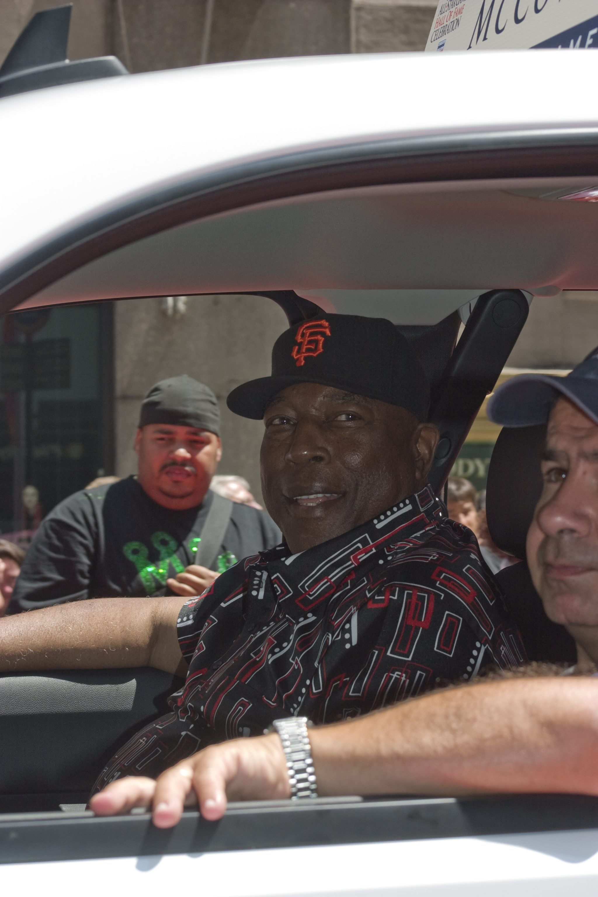 Baseball player Willie McCovey. © Rubenstein, photographer Martyna Borkowski